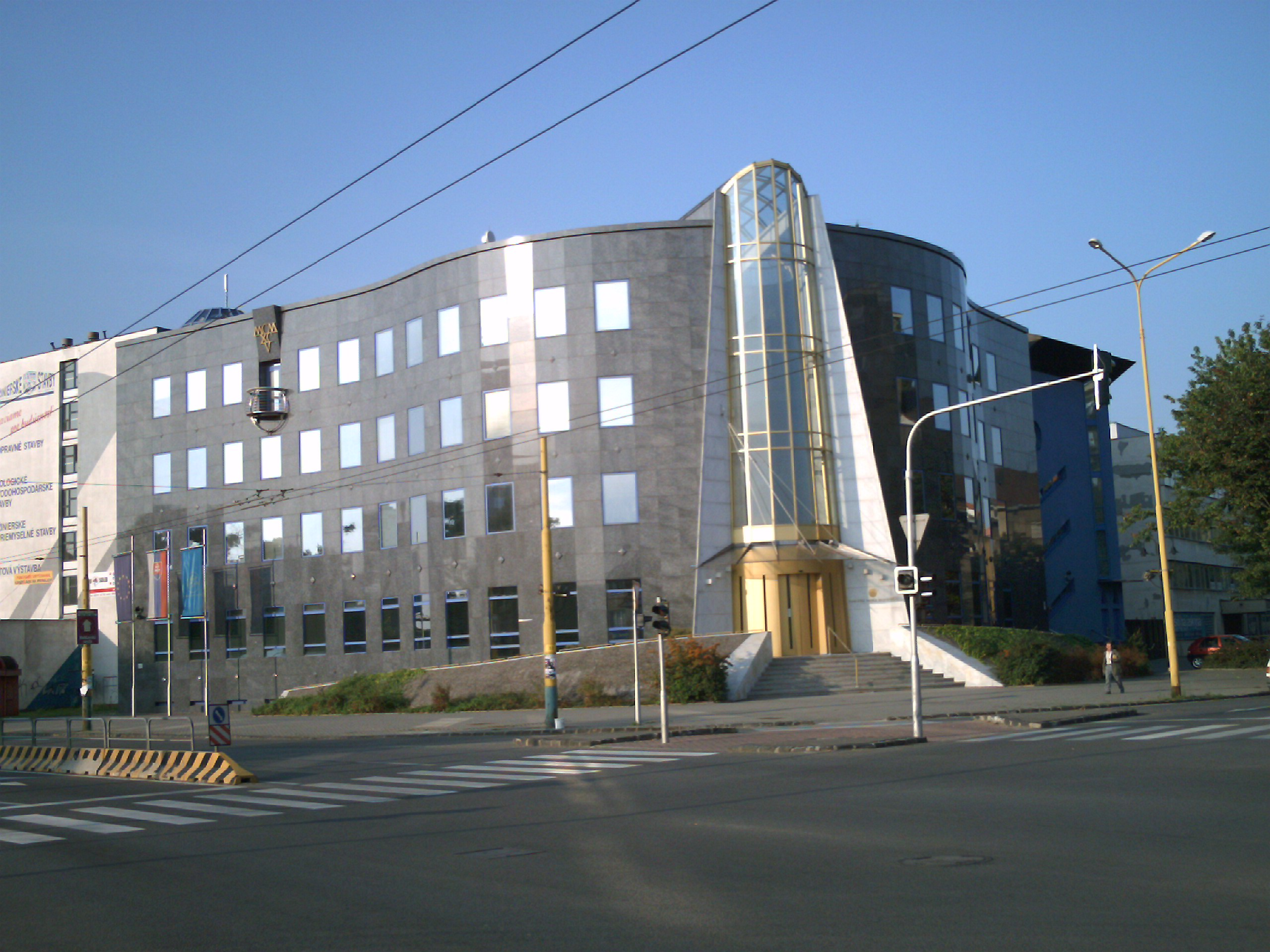 Building of National Bank in Kosice - Slovakia